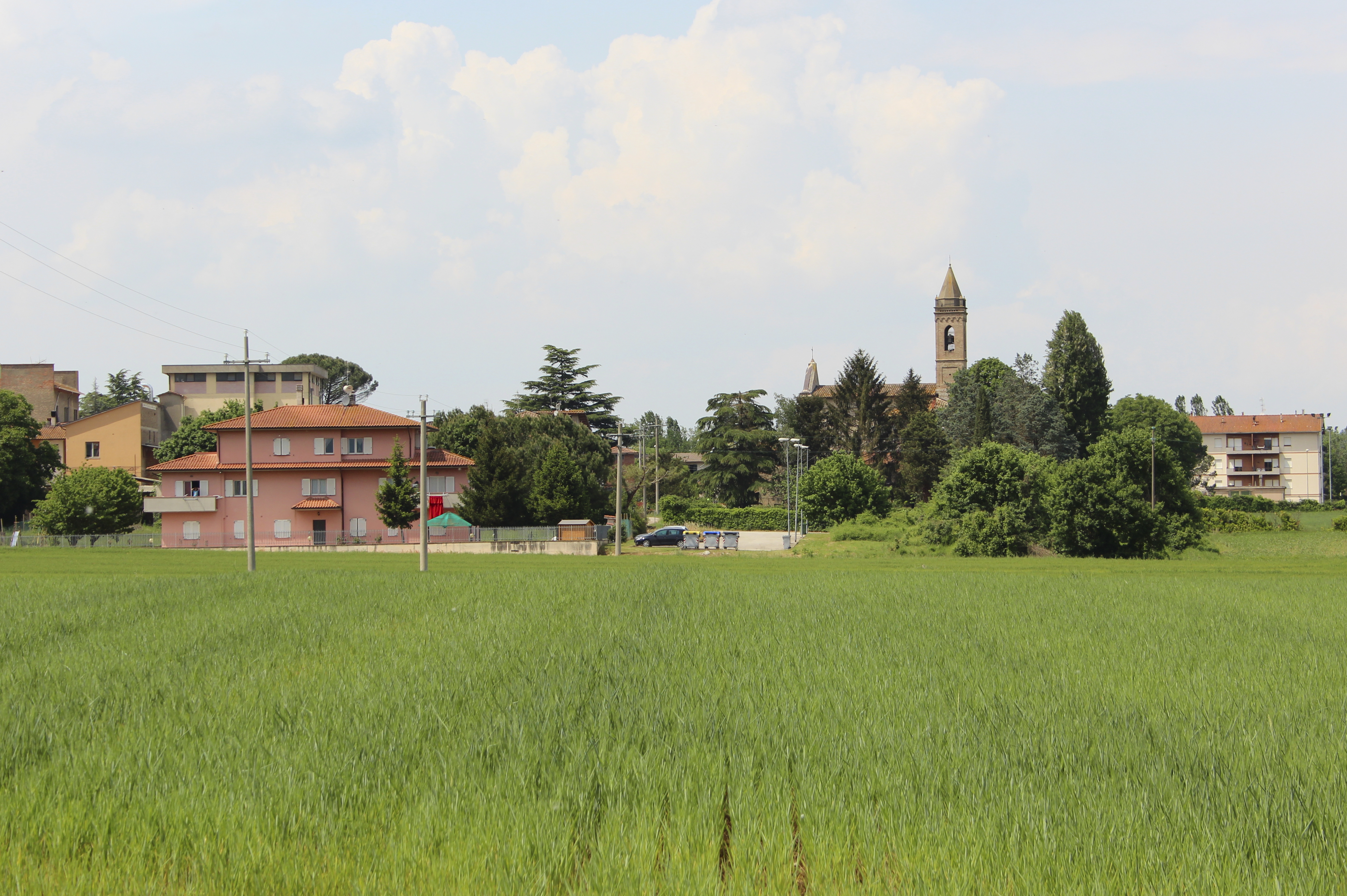 Montecastelli, hamlet of Umbertide, Province of Perugia, Umbria, Italy